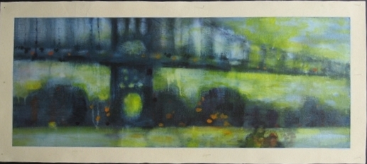 acrylic on stretched, unsupported canvas